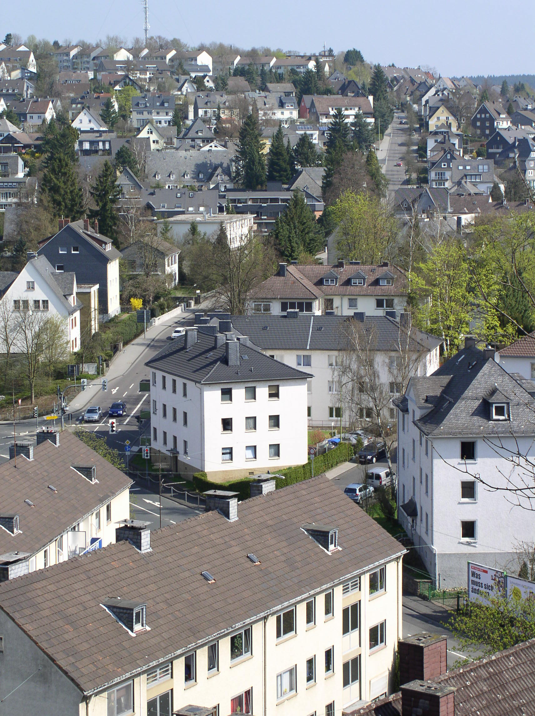 The Giersberg hill with the road Giersbergstrasse in Siegen/Westphalia, Germany